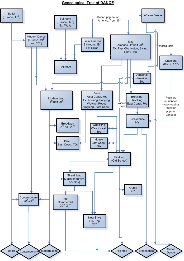 This flowchart features highlights of dance evolution, and realtions between different dance styles.